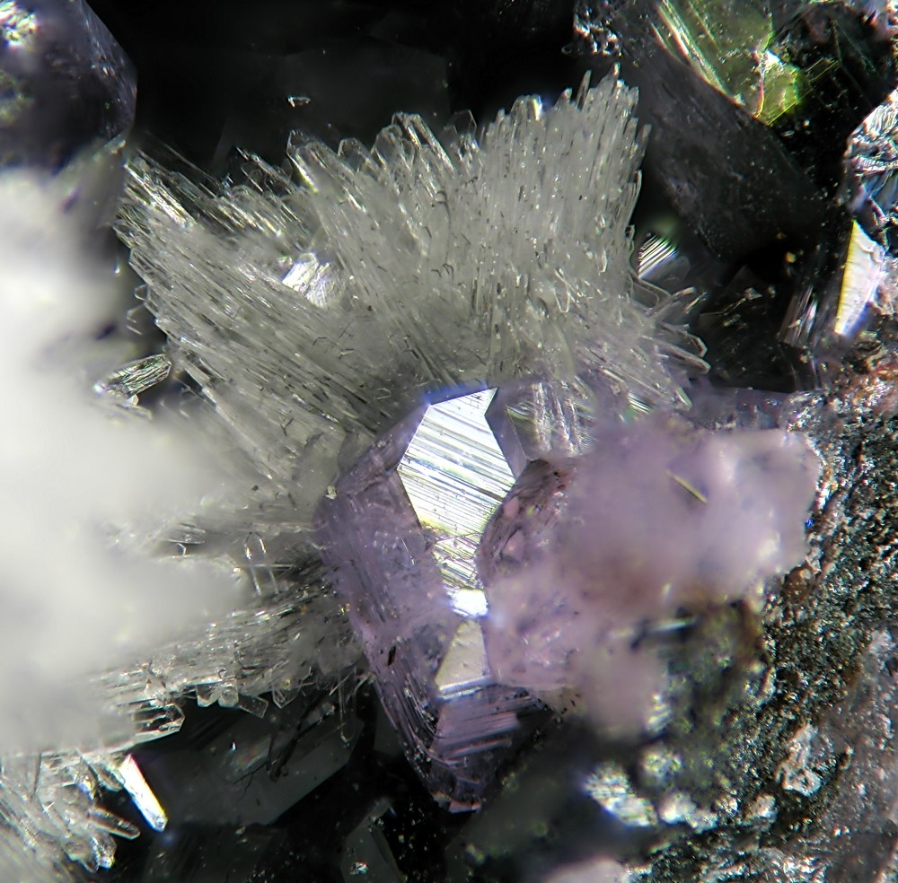 Carlhintzeite, Strengite Locality: Hagendorf South Pegmatite (Cornelia Mine; Hagendorf South Open Cut), Hagendorf, Waidhaus, Vohenstrauß, Upper Palatine Forest, Upper Palatinate, Bavaria, Germany (Locality at ) White Carlhintzeite with violet strengite. Picture width 3,5 mm. Collection and photo Christian Rewitzer